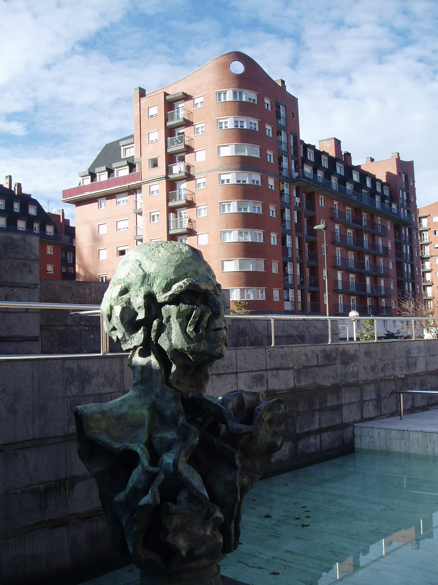 Monument to José María Makua, first General Deputy of Biscay since the instauration of the democracy in Spain. Miribilla (Bilbao).